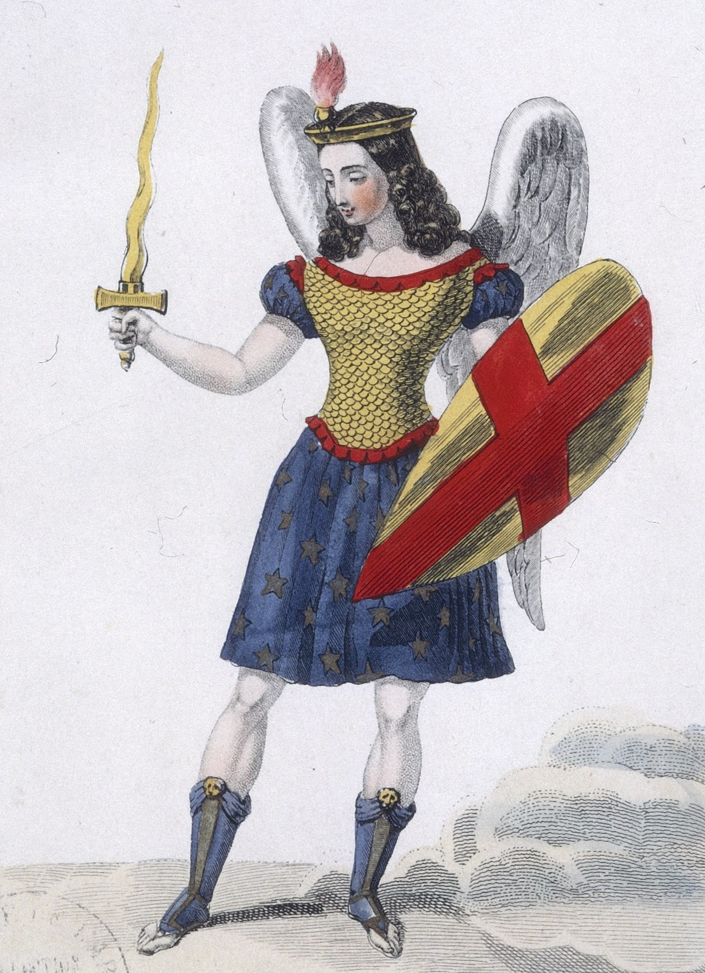 Louise-Zulmé Dabadie in the role of the angel Mizaël in Halévy's 1832 ballet-opera La tentation